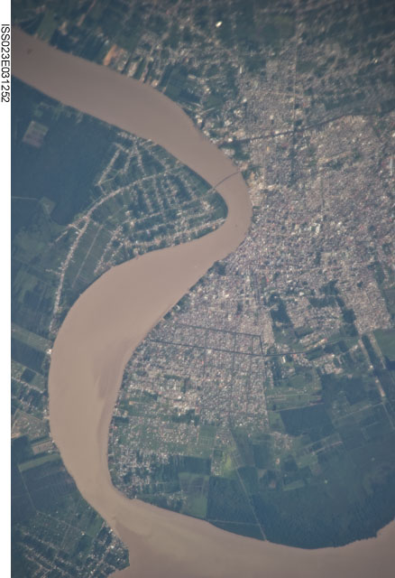 Astronaut Photo of Paramaribo, Suriname taken from the International Space Station (ISS) during Expedition 23 on May 2, 2010.